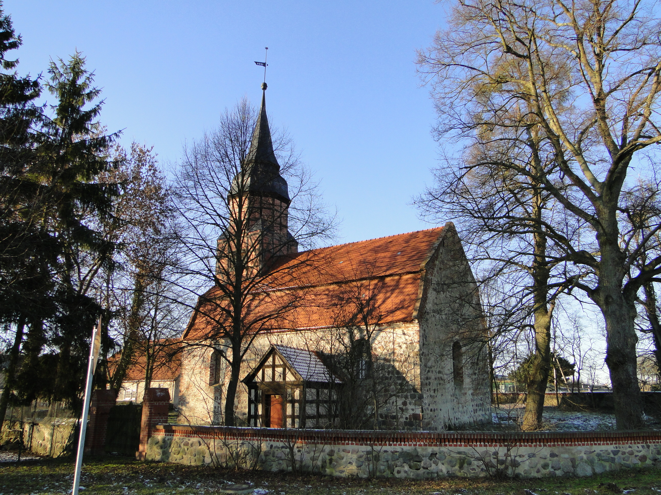 Church in Wittenborn, district Mecklenburg-Strelitz, Mecklenburg-Vorpommern, Germany